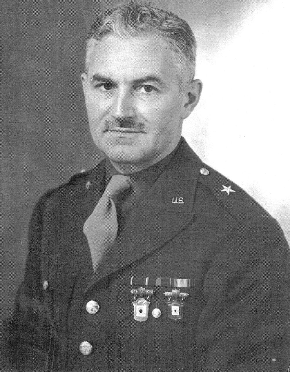 Taken from US Army Corps of Engineers. ( Public copyright.